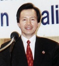 Crop of 파일:HKY1.jpg